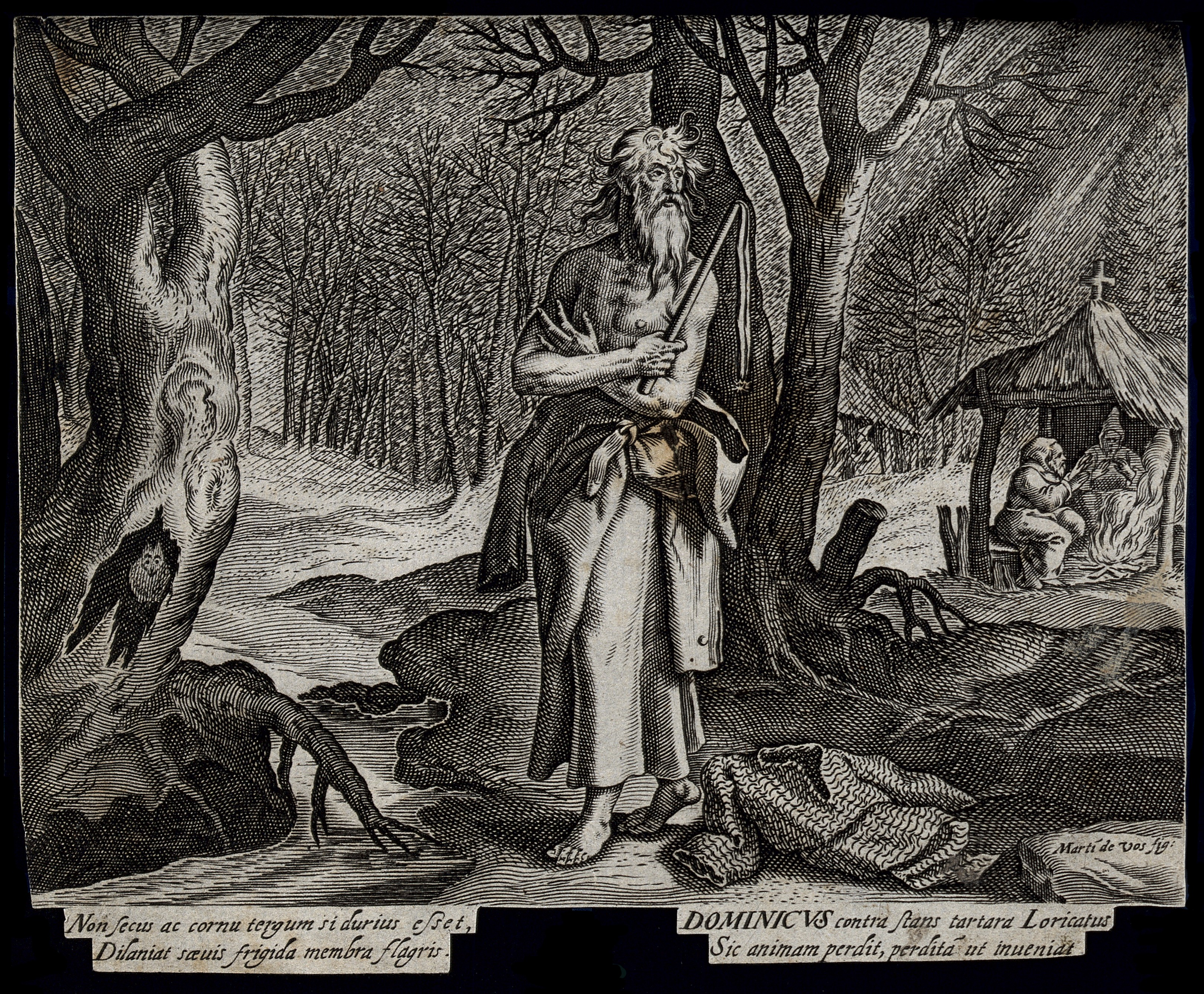 Saint Dominic of Loricatus. Engraving after M. de Vos. Iconographic Collections